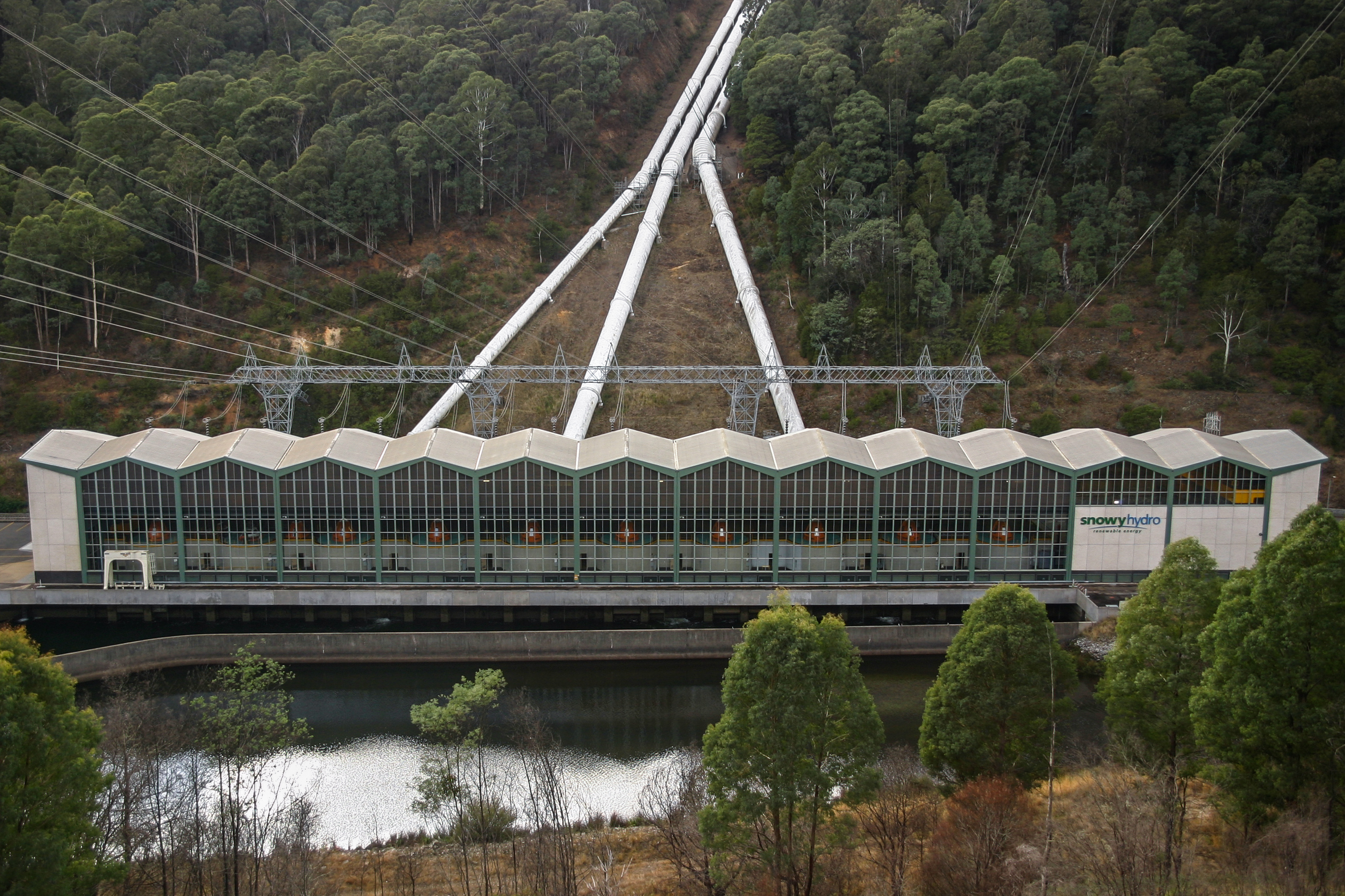 Murray 1 Hydroelectric Power Station, New South Wales, Australia